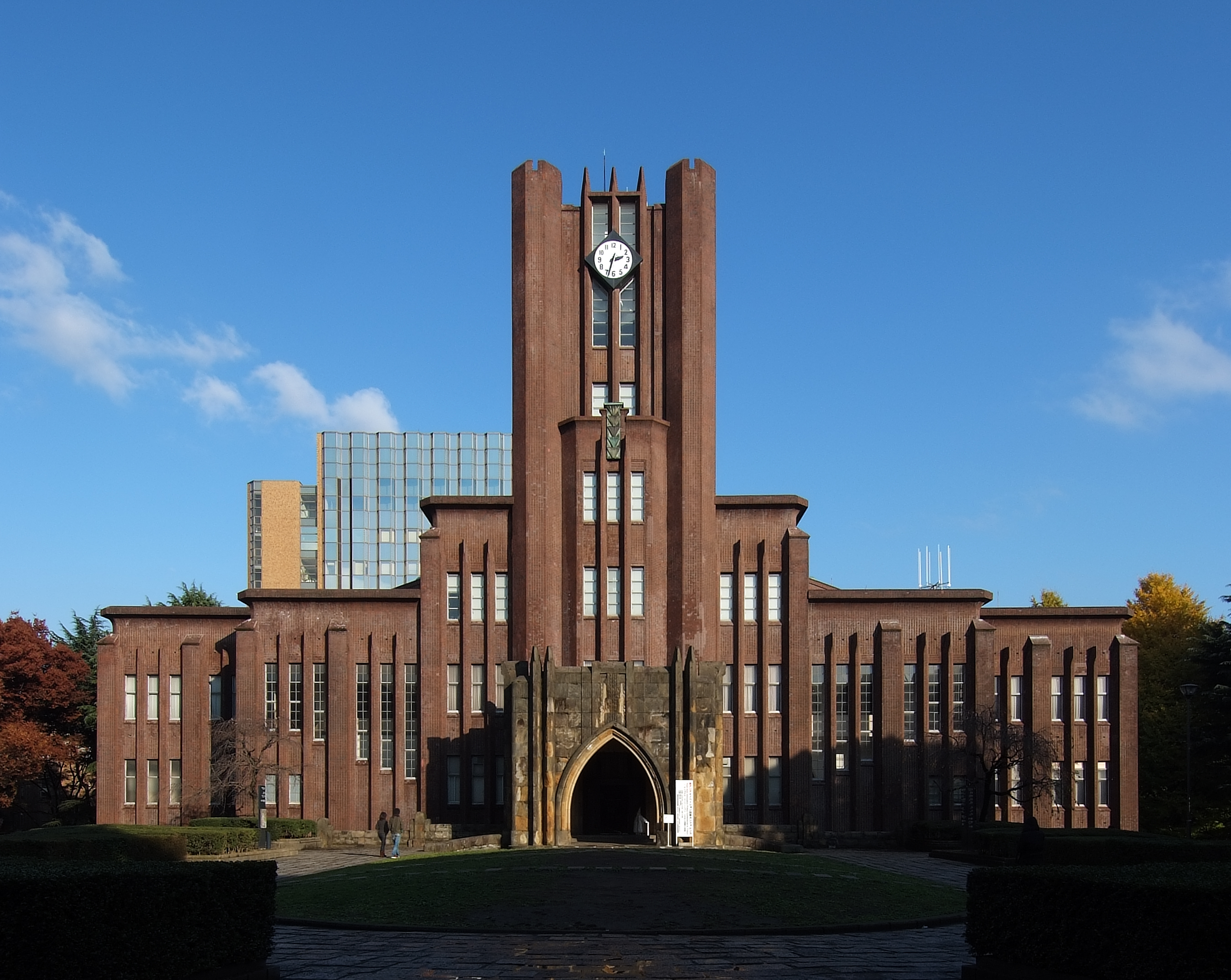 Yasuda Auditorium of Tokyo University, at Hongo Tokyo Japan, design by Shozo Uchida in 1925.